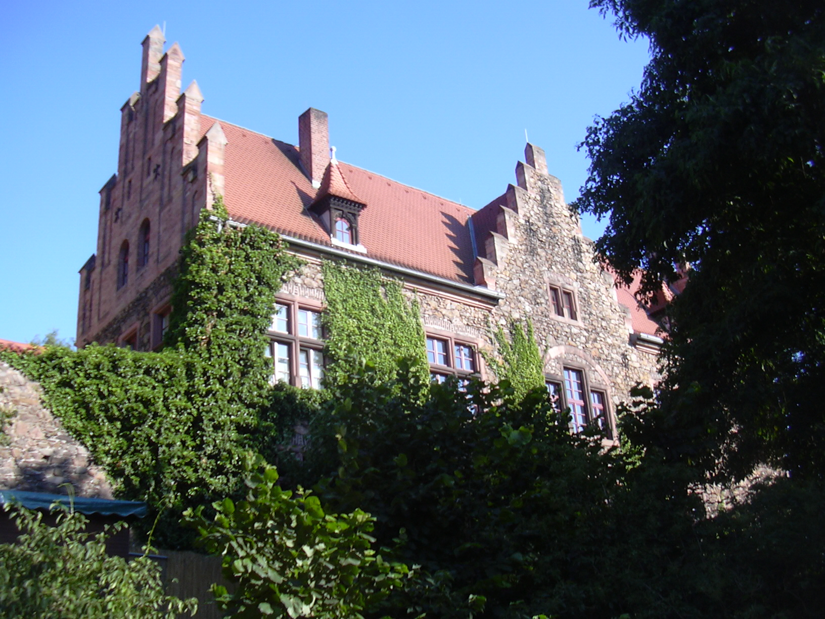 Alzenau Castle, court building, around 1900, near Aschaffenburg, Bavaria/Germany